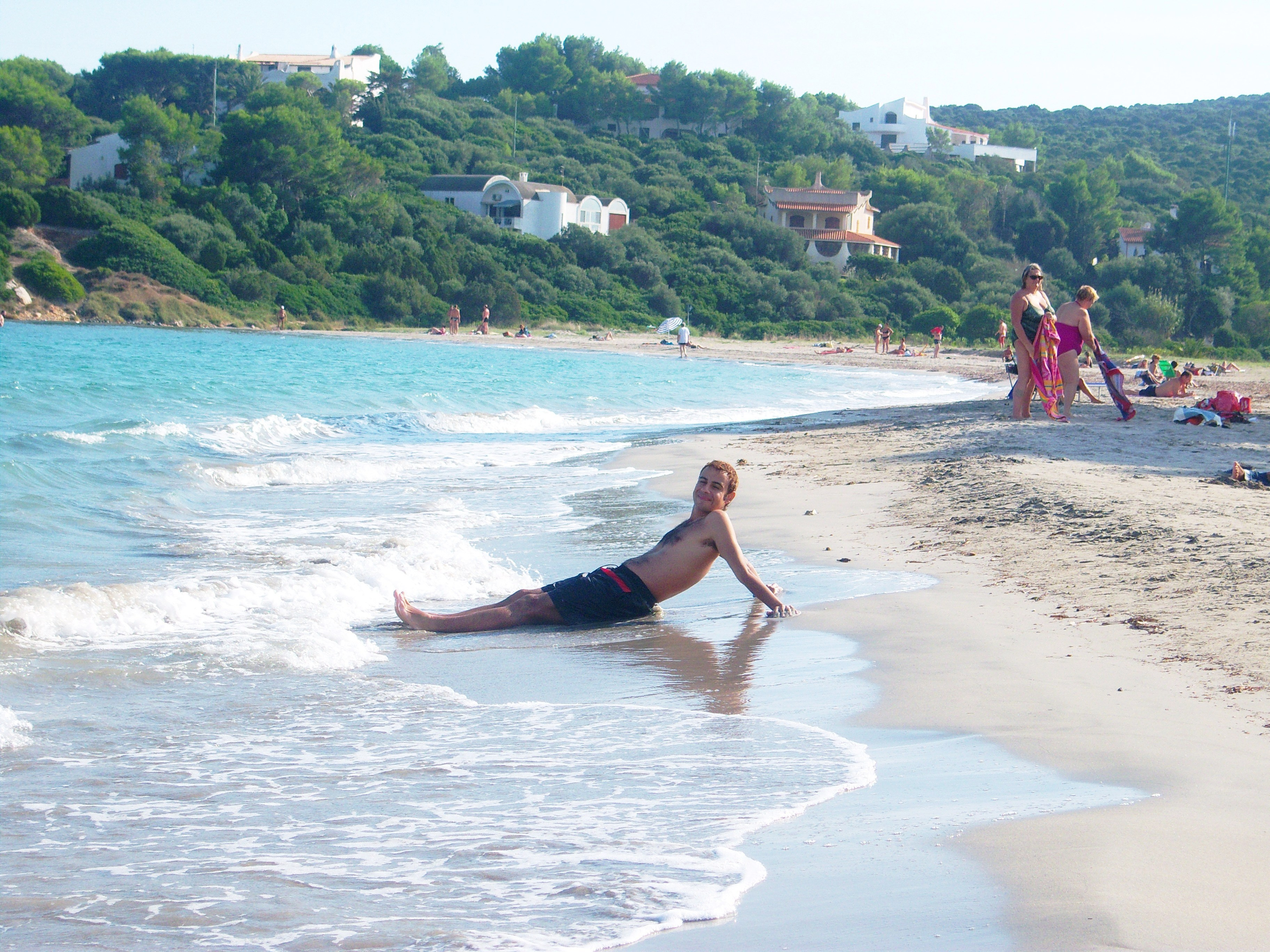 Maladroxia Beach